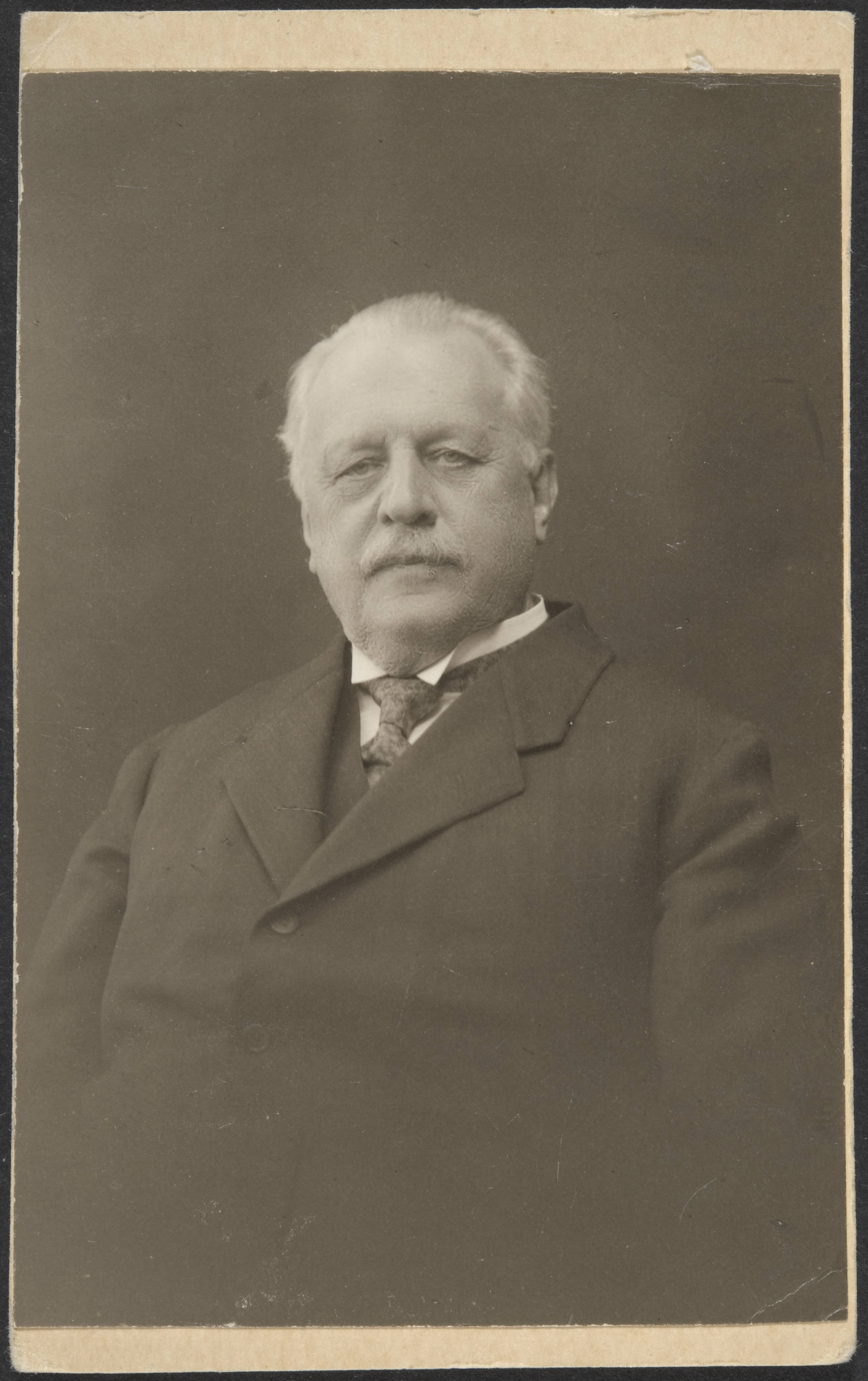 Photograph of the Finnish industrialist Hugo Robert Standertskjöld (1844–1931).